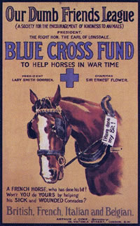 Poster for the Blue Cross appeal of the Our Dumb Friends League, published 1916